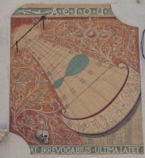 sundial in Meran. Latin inscription: At irrevocabilis ultima latet. - But the last [hour] is hidden, not to be recalled. AEIOU above means Austriae Est Imperare Orbi Universo - It is to Austria to rule all of the world. For further meanings in Austria of A.E.I.O.U. see A.E.I.O.U.